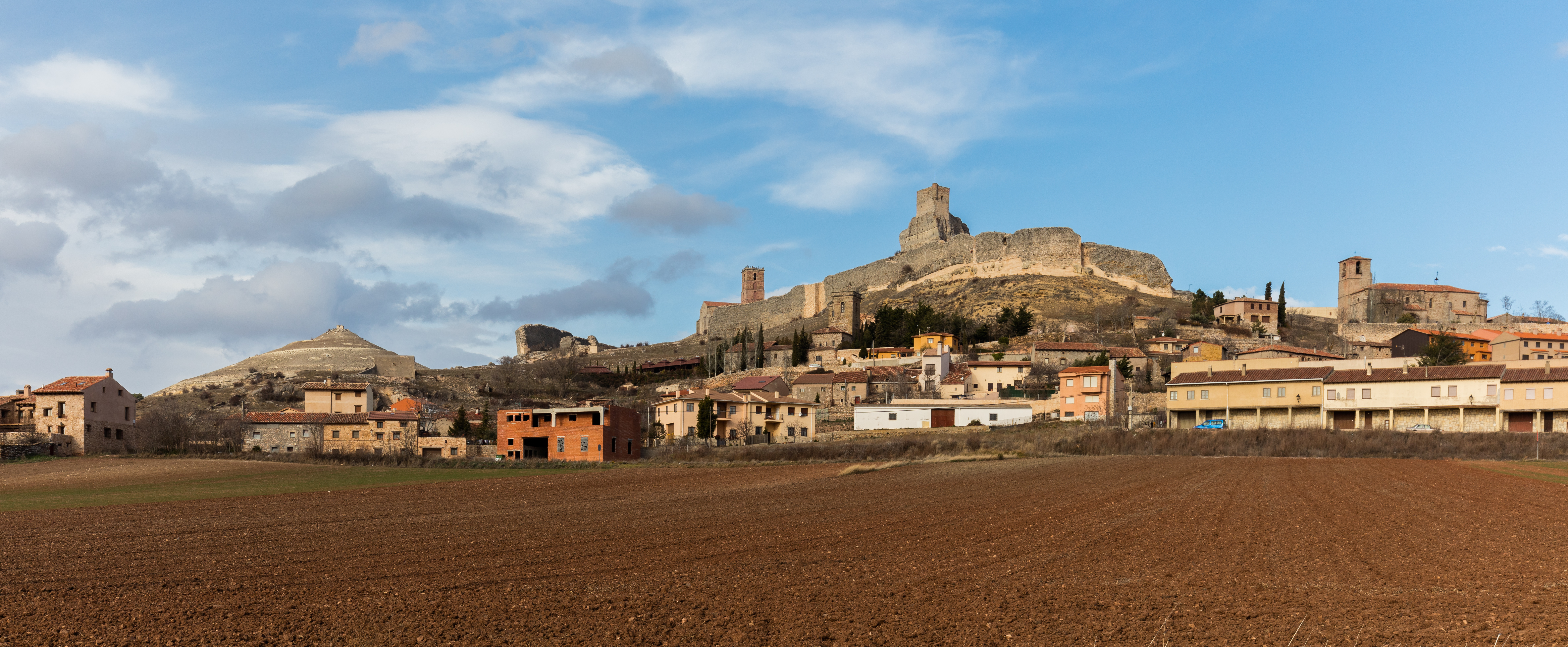 View of Atienza, Spain